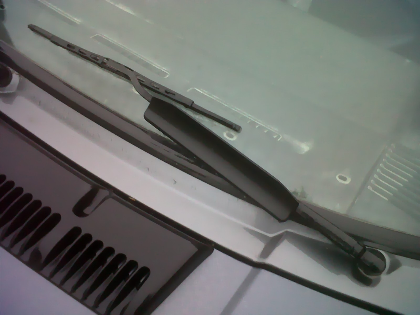 wipers fitted Spoiler